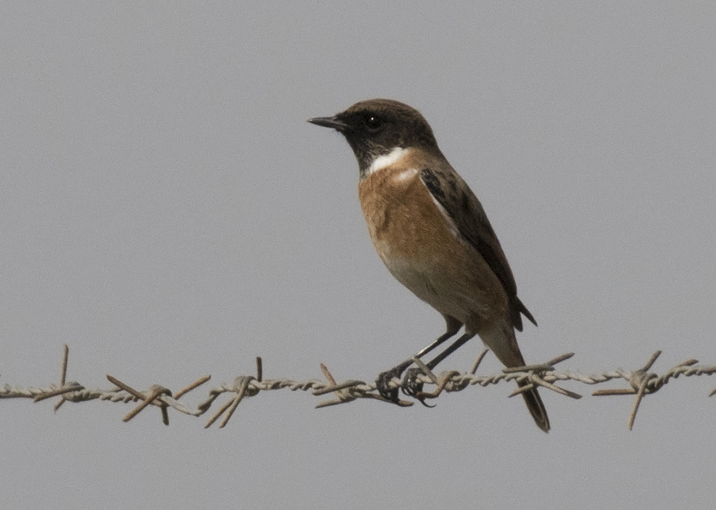 European Stonechat Saxicola rubicola in Kırmıtlı Birds Reserve in Osmaniye - Turkey.